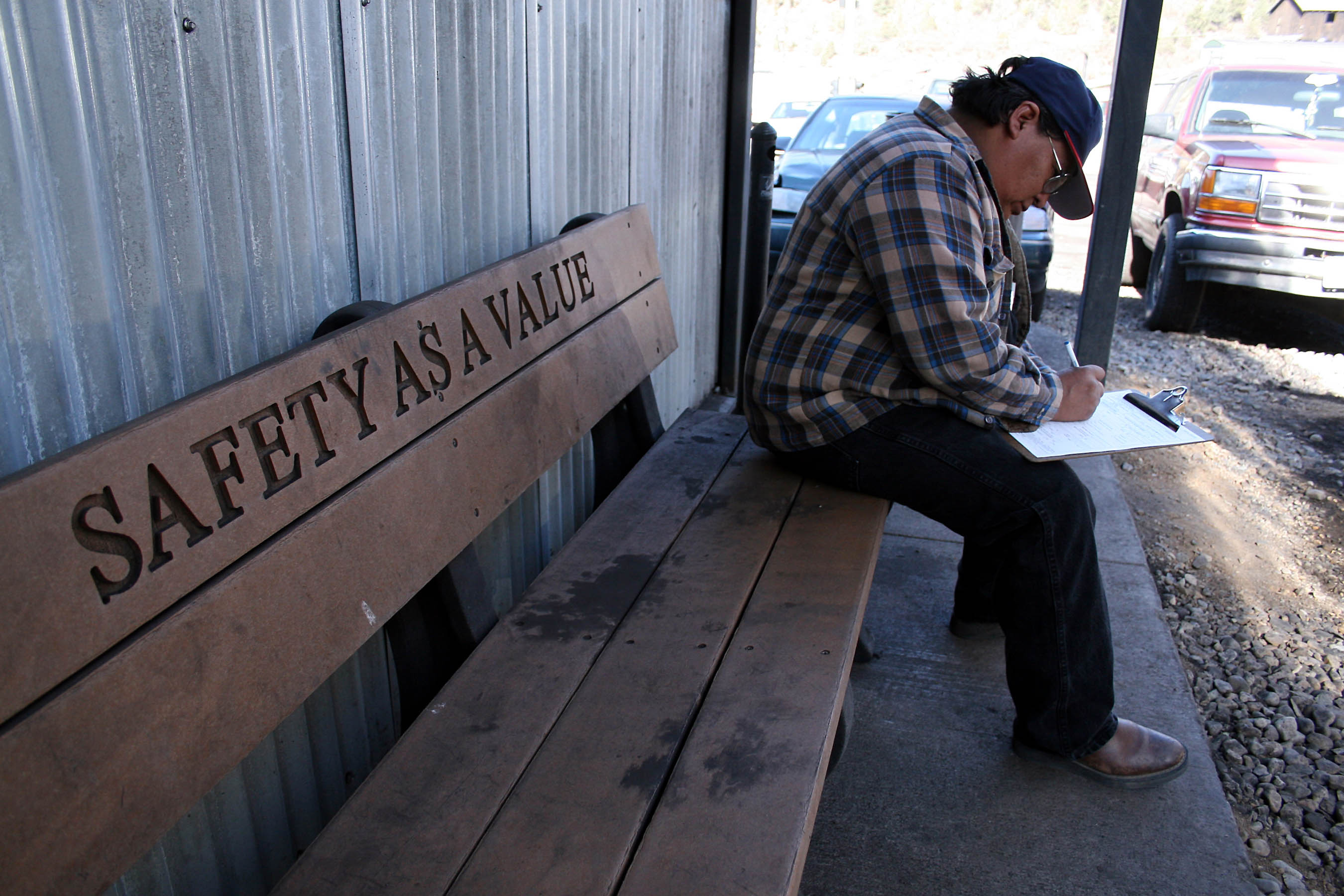 Coal miner in Colorado completing paperwork for the Enhanced Coal Workers' Health Surveillance Program (black lung screening)